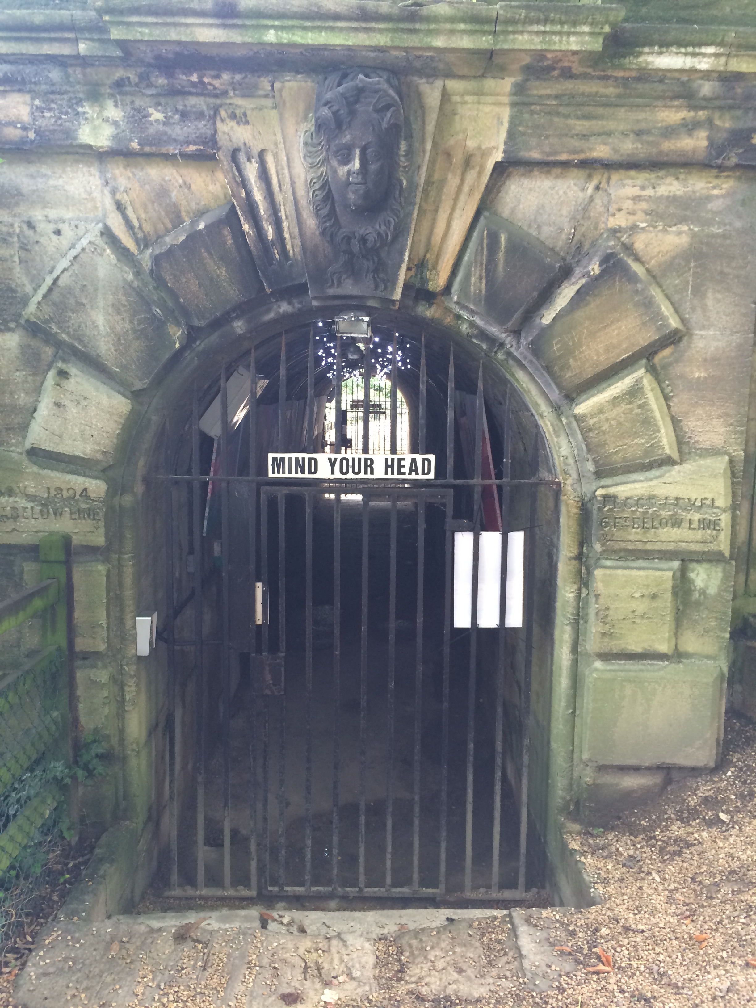 Choristers' tunnel under Magdalen Bridge running from Magdalen College School, Oxford to the Waynflete Building of Magdalen College, Oxford. Photograph taken by me.